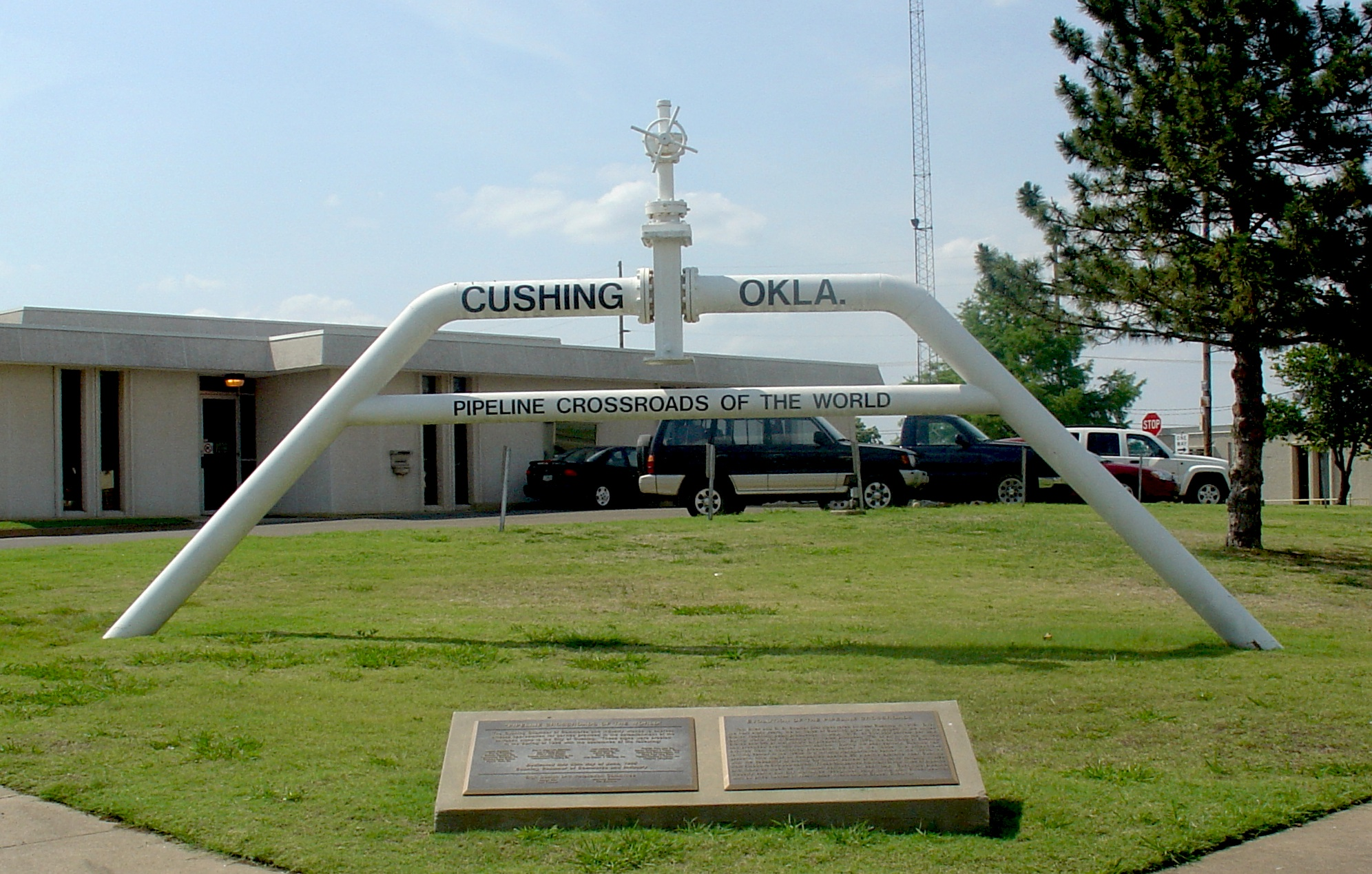 "Pipleline Crossroads of the World" sign found north and east of Cushing, Oklahoma.